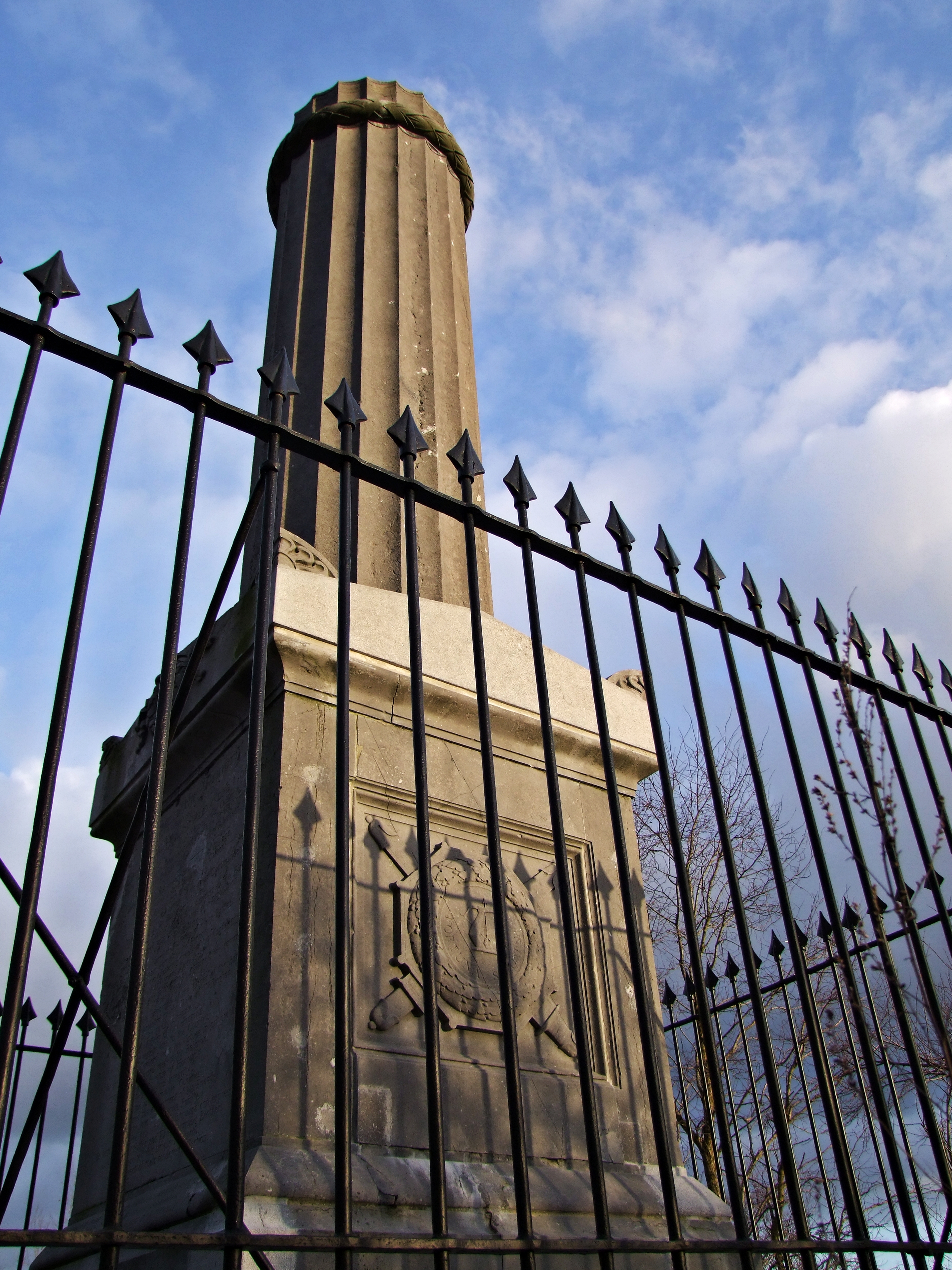 Monument erected in Braine-l'Alleud (South of Waterloo), in memory of Lieutenant-Colonel Sir Alexander Gordon (1786–1815), Aide de Camp to the Duke of Wellington and mortally wounded at the very end of the victorious Battle of Waterloo, 18 June 1815. Location : along road N 5, at (50.6796, 4.4119). .